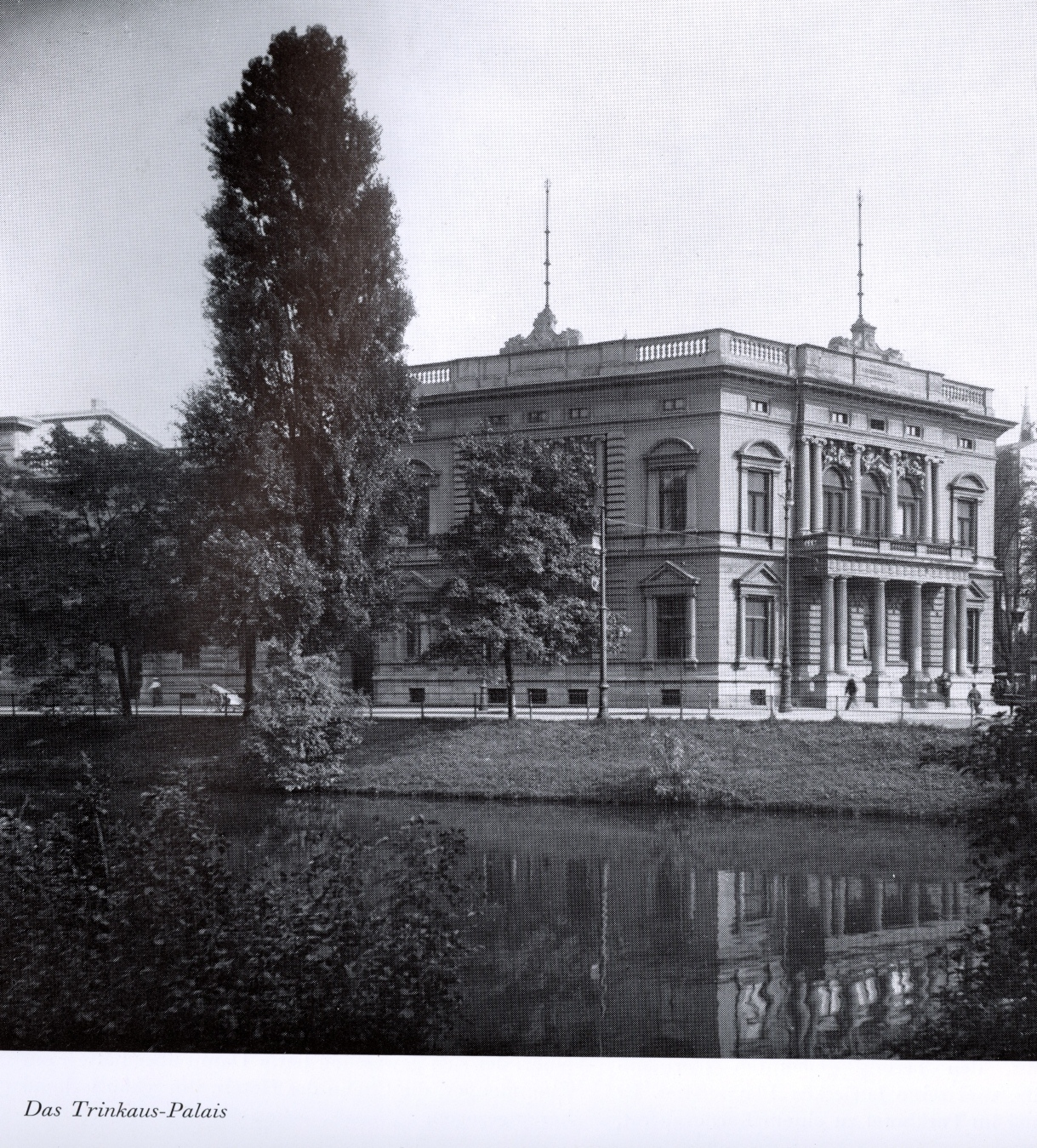 t